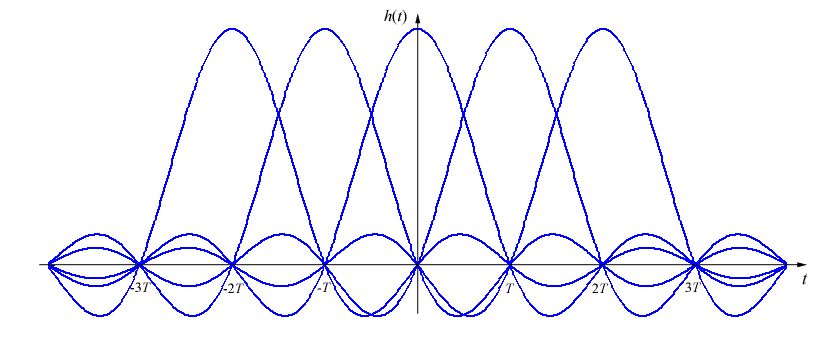 Consecutive raised-cosine impulses, demonstrating zero-ISI property.